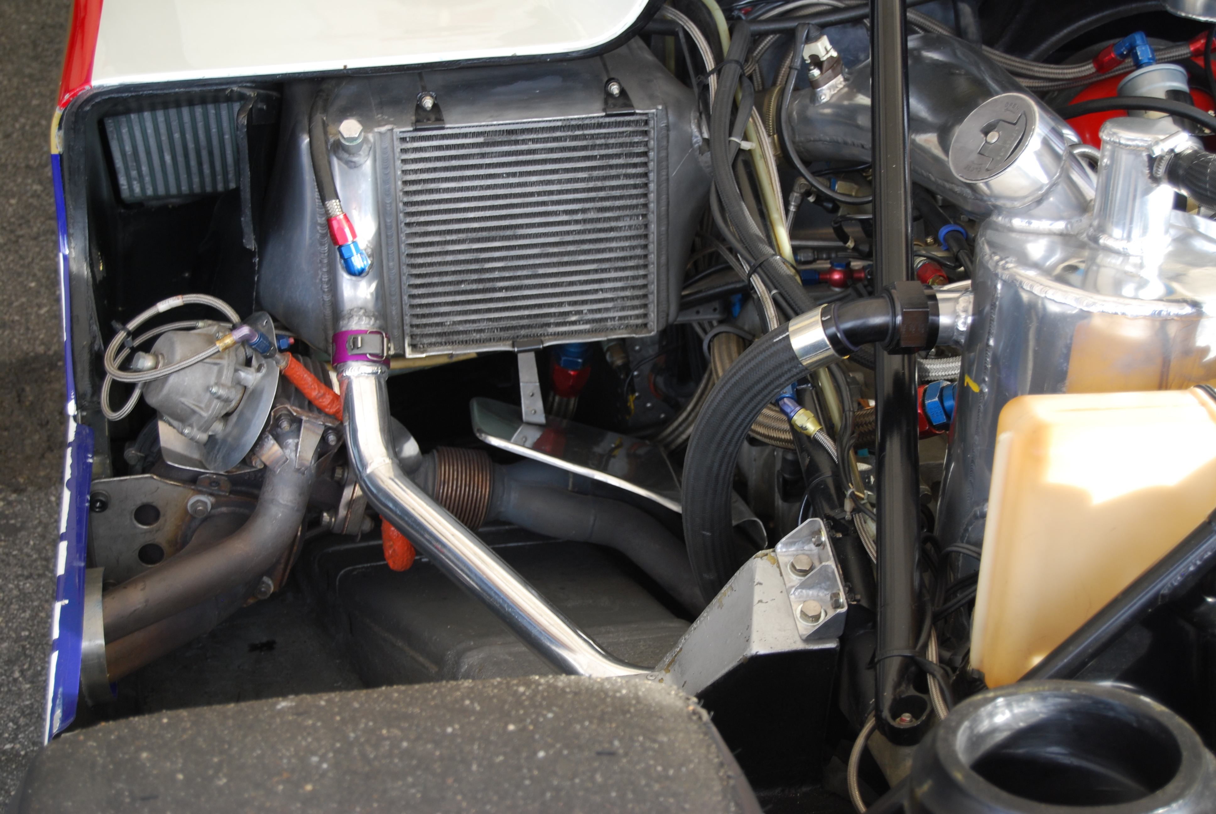 Boy oh boy is this a bunch of interesting stuff! Left to right, from the middle, we have left left (port) side of the car, with Rothman's red-white-blue-gold colors, the turbo exhaust and waste gate exhaust pipes, differential pressure diaphragm and actual waste gate. The red-wrapped oil supply line for the exhaust and intake turbines, the bellows linking the engine exhaust pipes to the turbo and waste gate assembly. Heat shield above the exhaust manifold, exhaust manifold, topside of the under-tray diffuser duct, cylinder head somehwere in all those hoses, main oil return line from the engine to the tank, structural tube from monocoque back to the transmission spacer/suspension pickup, engine oil tank, breather catch tank (beige- aged plastic) At the top, we get an oil radiator at the front of the cooling duct, the turbo intercooler leading from the compressor to the intake manifold, a lot of hoses coming over the intercooler/maifold connection, the monocoque end of the structural tube, a fuel filter and below that, in red, the "911" style fan shroud for the cylinders. (heads are water cooled). At the bottom, we've got a rear tire, a shiny pipe for compressed intake air (unlikely) or head coolant, a piece of structure that looks like it has something to do with the transmission spacer, and the suspension-side interface for the brake cooling duct formed in the rear body. DSC_0033